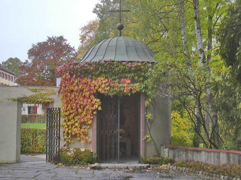 Memorial chapel for the Stauffenberg brothers (Claus and Berthold) in Albstadt, Germany